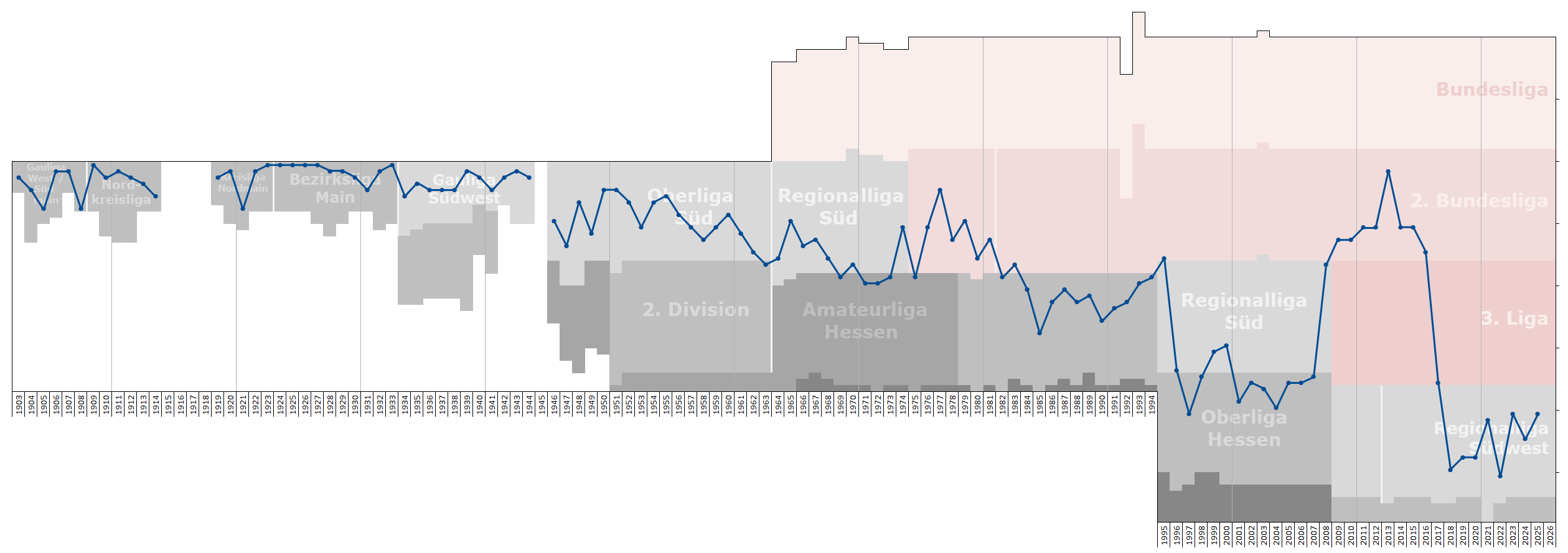 Chart of end-season table positions of FSV Frankfurt in the football league system of Germany. Data source: RSSSF, wikipedia, f-archiv.de, fussball.de